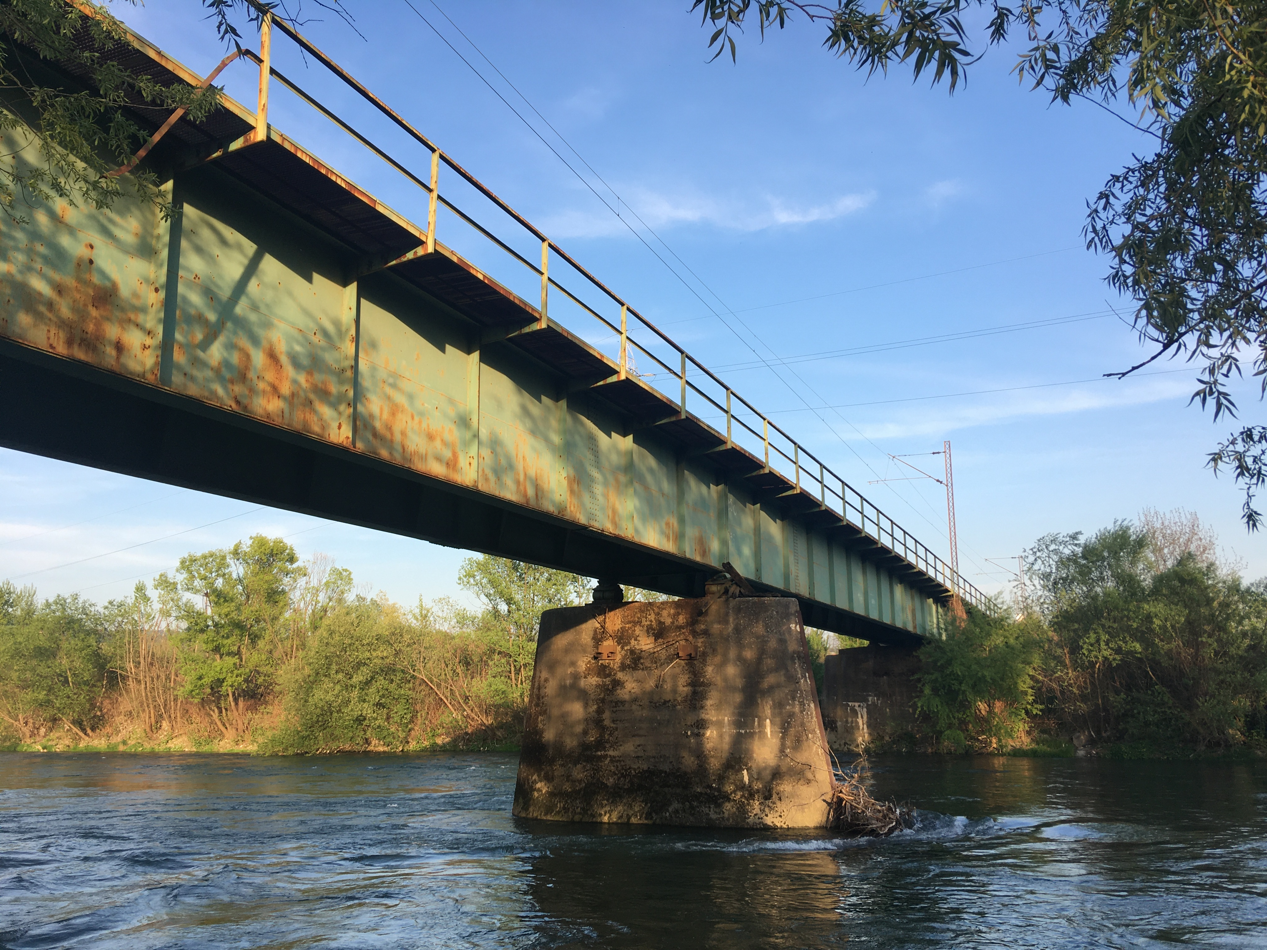 Željeznički / pružni most preko rijeke Vrbas u Banjoj Luci